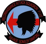 Insignia of the U.S. Navy Reconnaissance Heavy Attack Squadron 5 (RVAH-5).